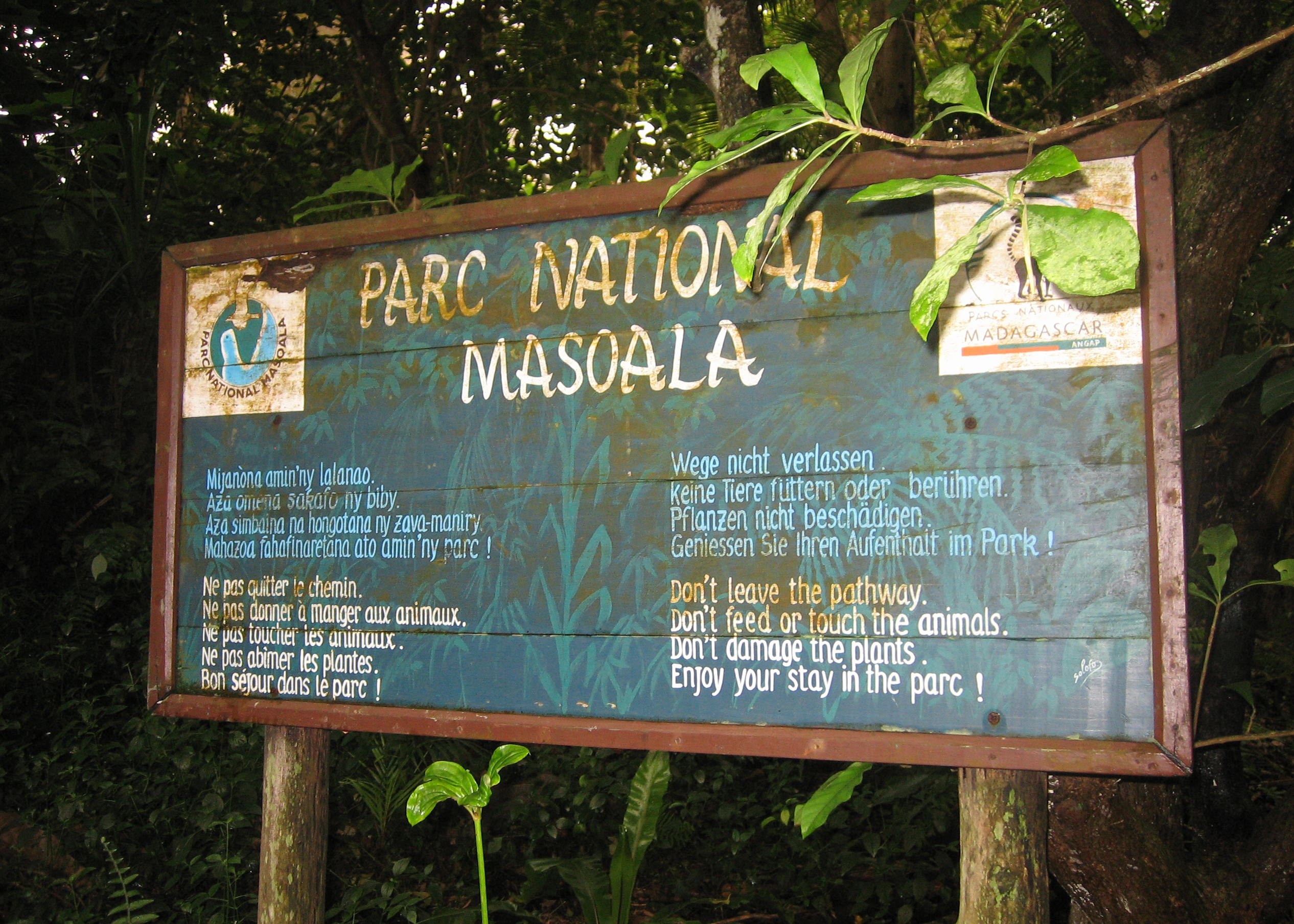 Welcome plate for the "National Park of Masoala" in the Masoala Hall, Zoo Zurich